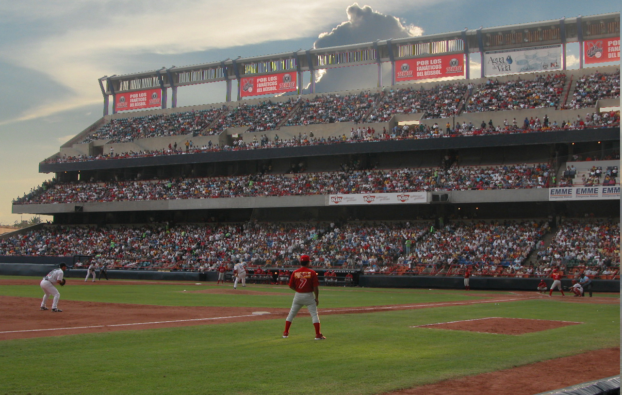 Estadio de beisbol en Monterrey. Casa de los Sultanes de Monterrey